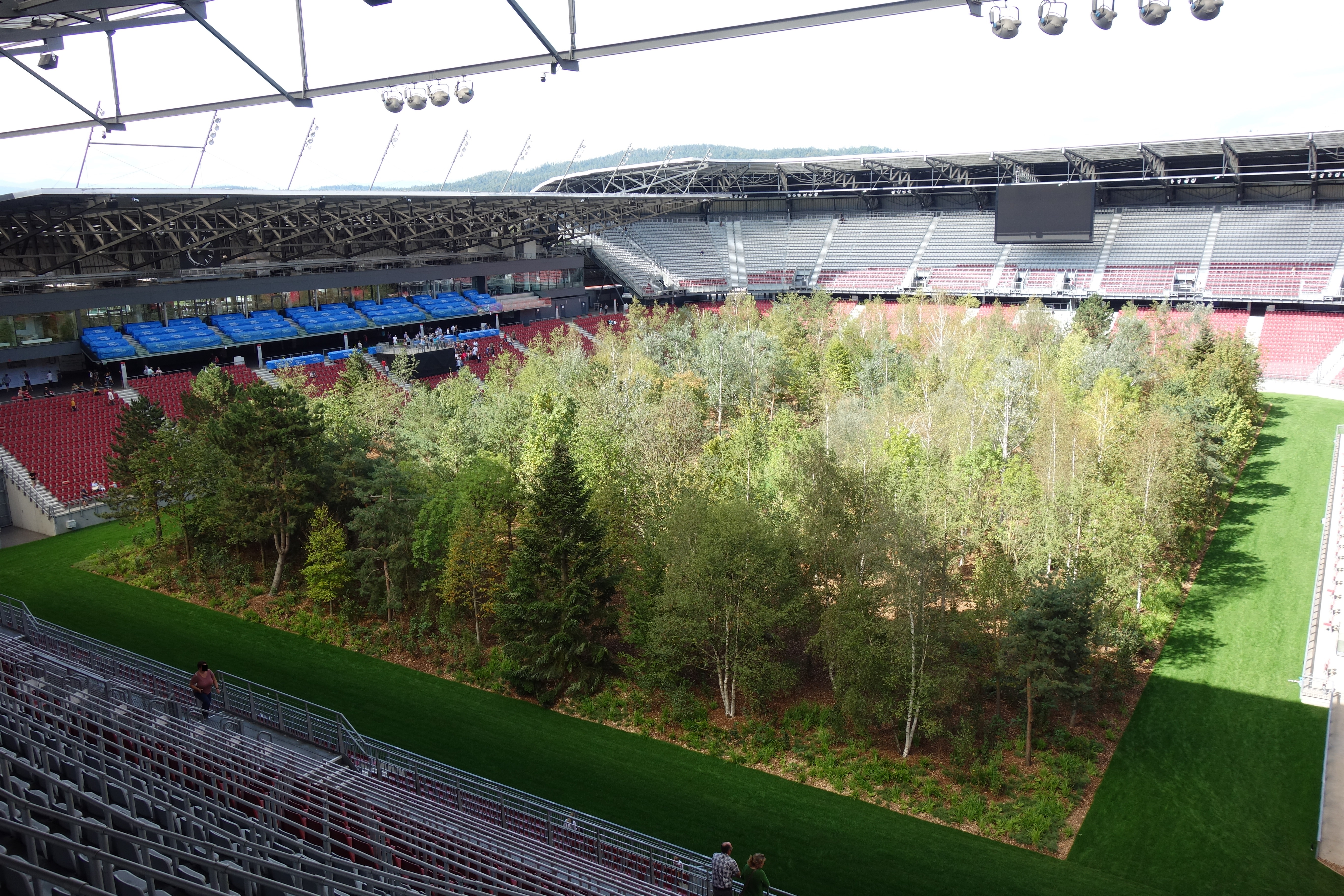 Wörthersee Stadion - For Forest